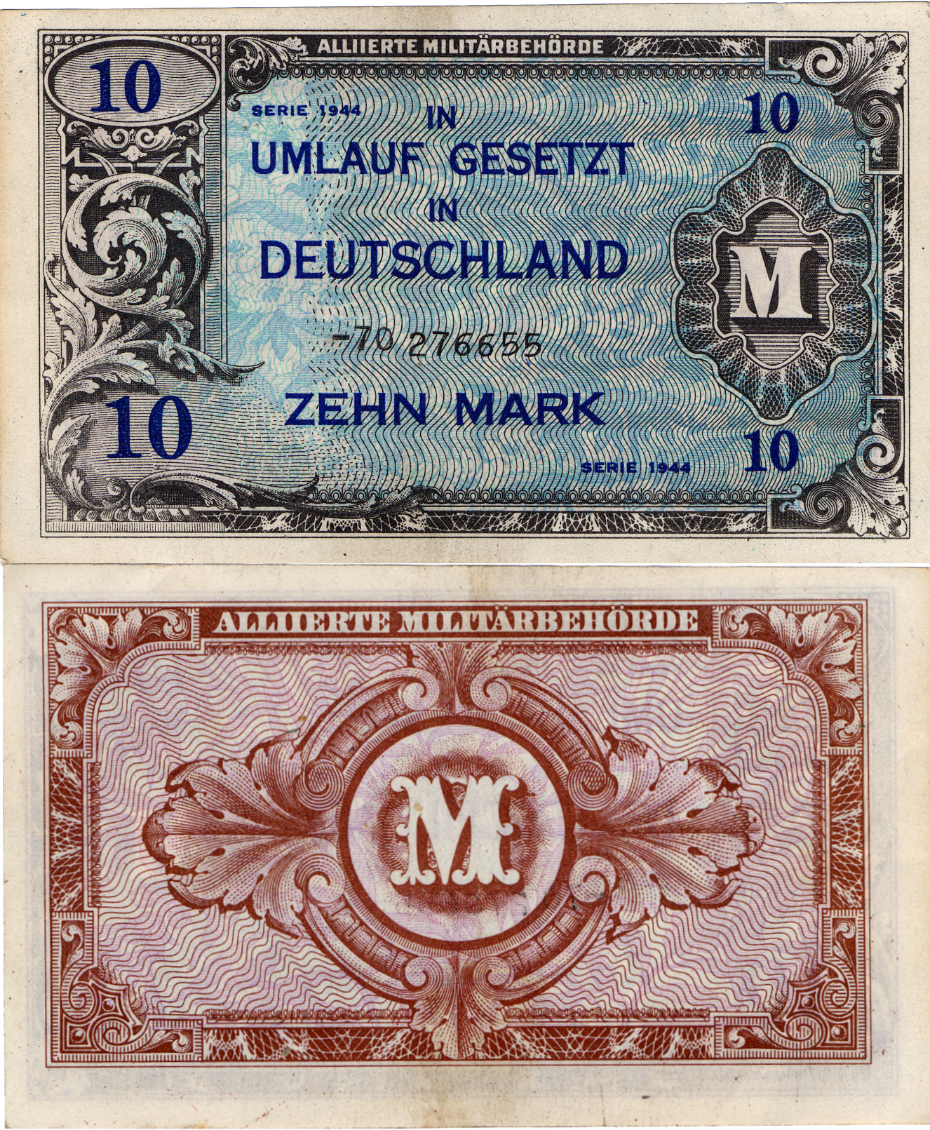 10 Mark allied military currency, soviet issue